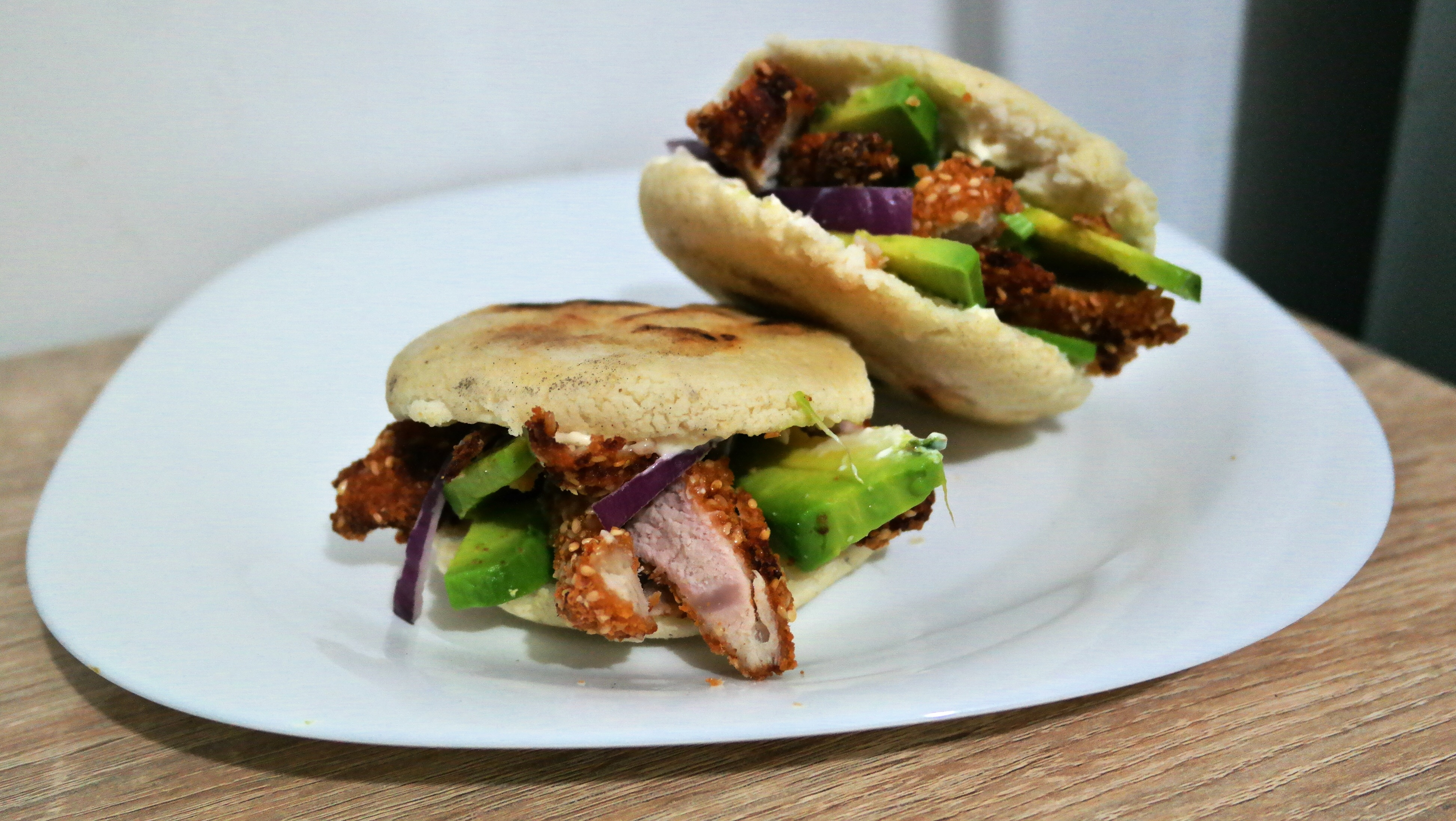 Arepas with chicken schnitzel, avocado, mayonnaise and red onion. Similar to a "Reina Pepeada" arepa in ingredients, but prepared differently